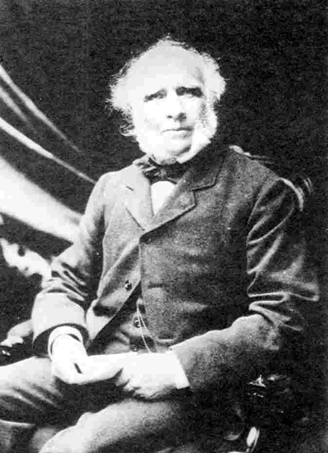 Portrait of Rev. Robert Kalley